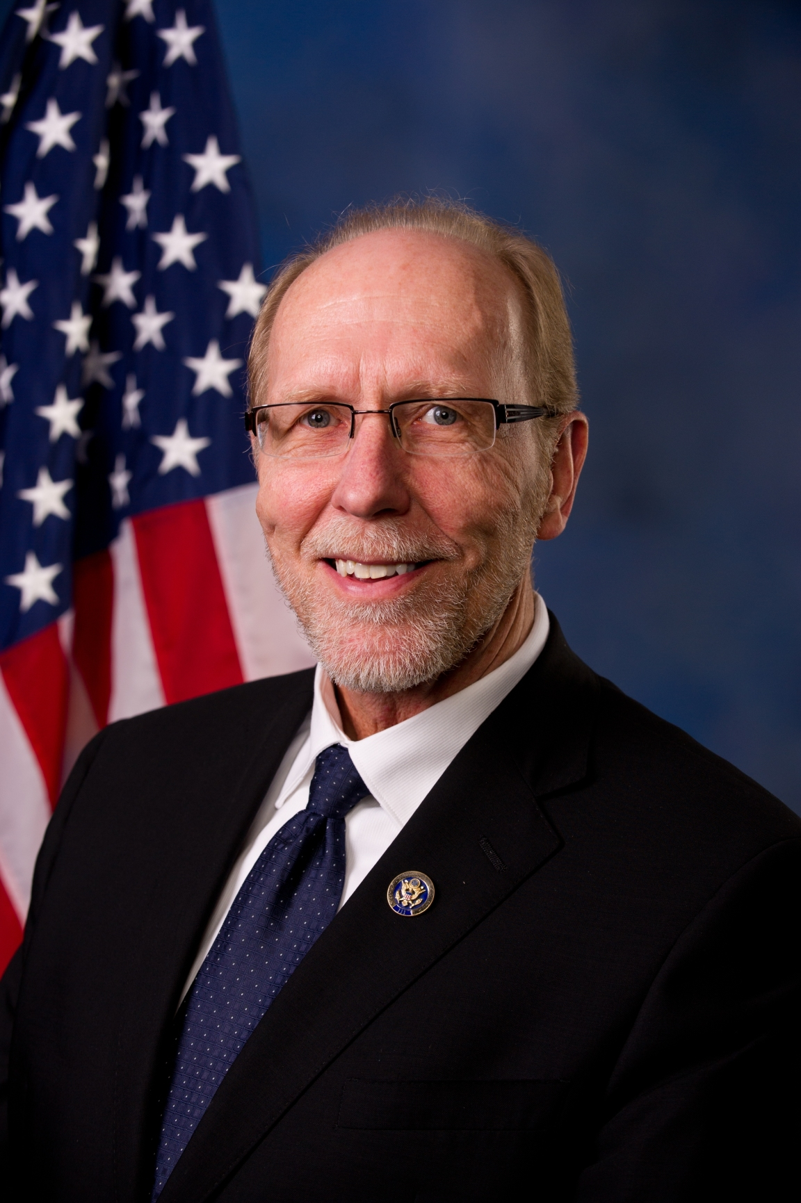 Official Headshot of Rep. Dave Loebsack (IA-02)